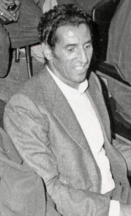 Islamic Republican Party HQ - welcome ceremony for Abdessalam Jalloud - March 1979